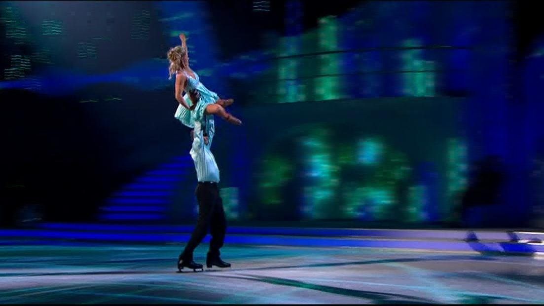 Johnson Beharry and Jodeyne Higgins doing a hand to hand press lift